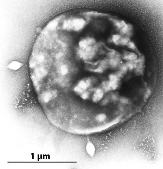 Archaea Sulfolobus infected with specific virus STSV-1. Extracted from English Wikipedia. Author comments = Cell of Sulfolobus infected by virus STSV1 observed under microscopy. Two spindle-shaped viruses were being released from the host cell. The strain of Sulfolobus and STSV1 ( Sulfolobus tengchongensis Spindle-shaped Virus 1) were isolated by Xiaoyu Xiang and his colleagues in an acidic hot spring in Yunnan Province, China. At present, STSV1 is the largest archaeal virus have been isolated and studied. Its genome sequence has been sequenced.